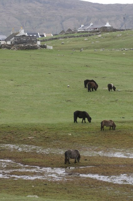 Shetland ponies grazing in front of the houses around Duncansclett and Papil at the south end of West Burra, Shetland